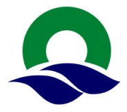 Oi Fukui chapter